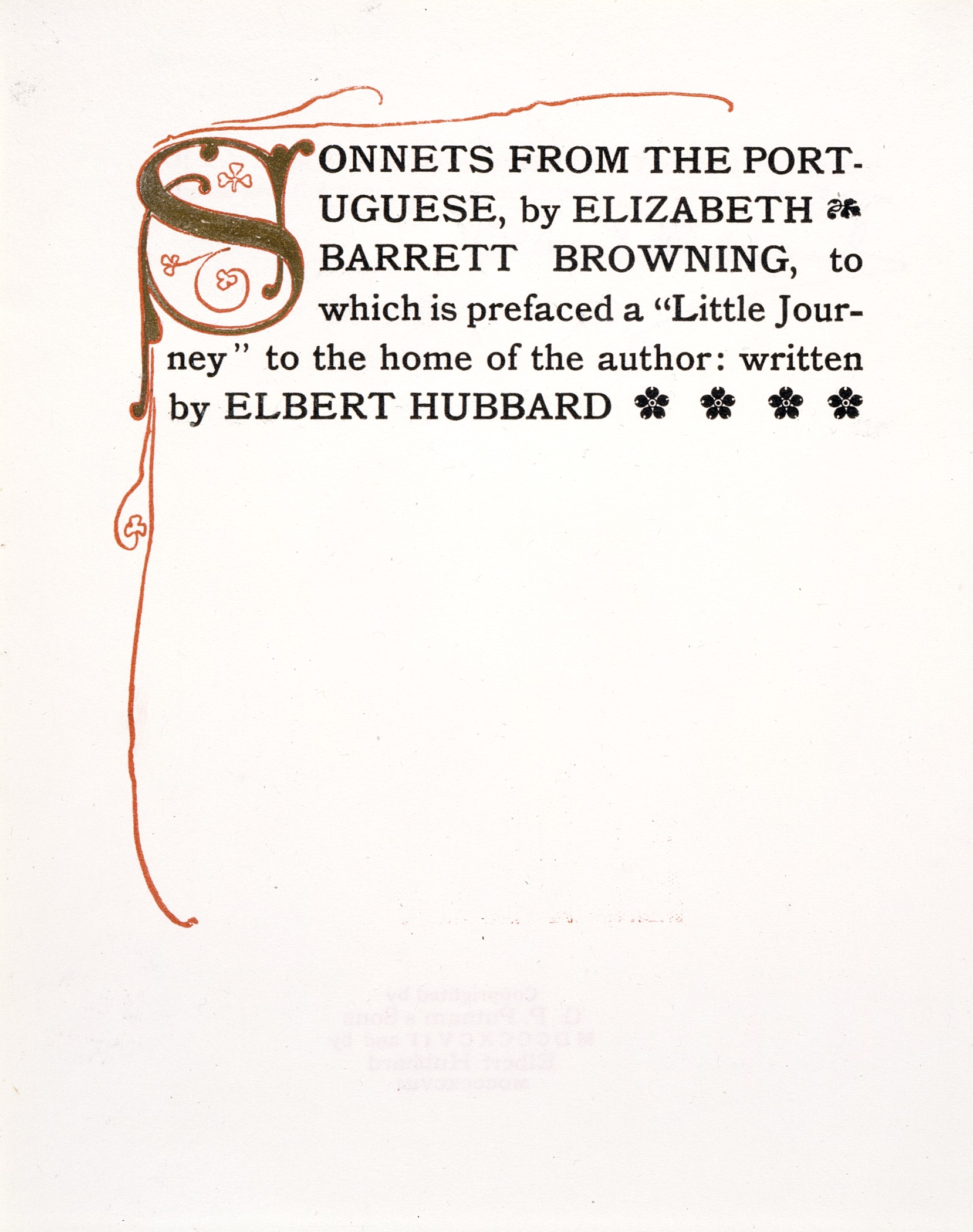 United States, 1898 Books Leather, paper and ink 11 3/8 x 9 1/16 x 7/16 in. (28.89 x 23.02 x 1.11 cm) Gift of Max Palevsky and Jodie Evans (M.91.375.82) Decorative Arts and Design